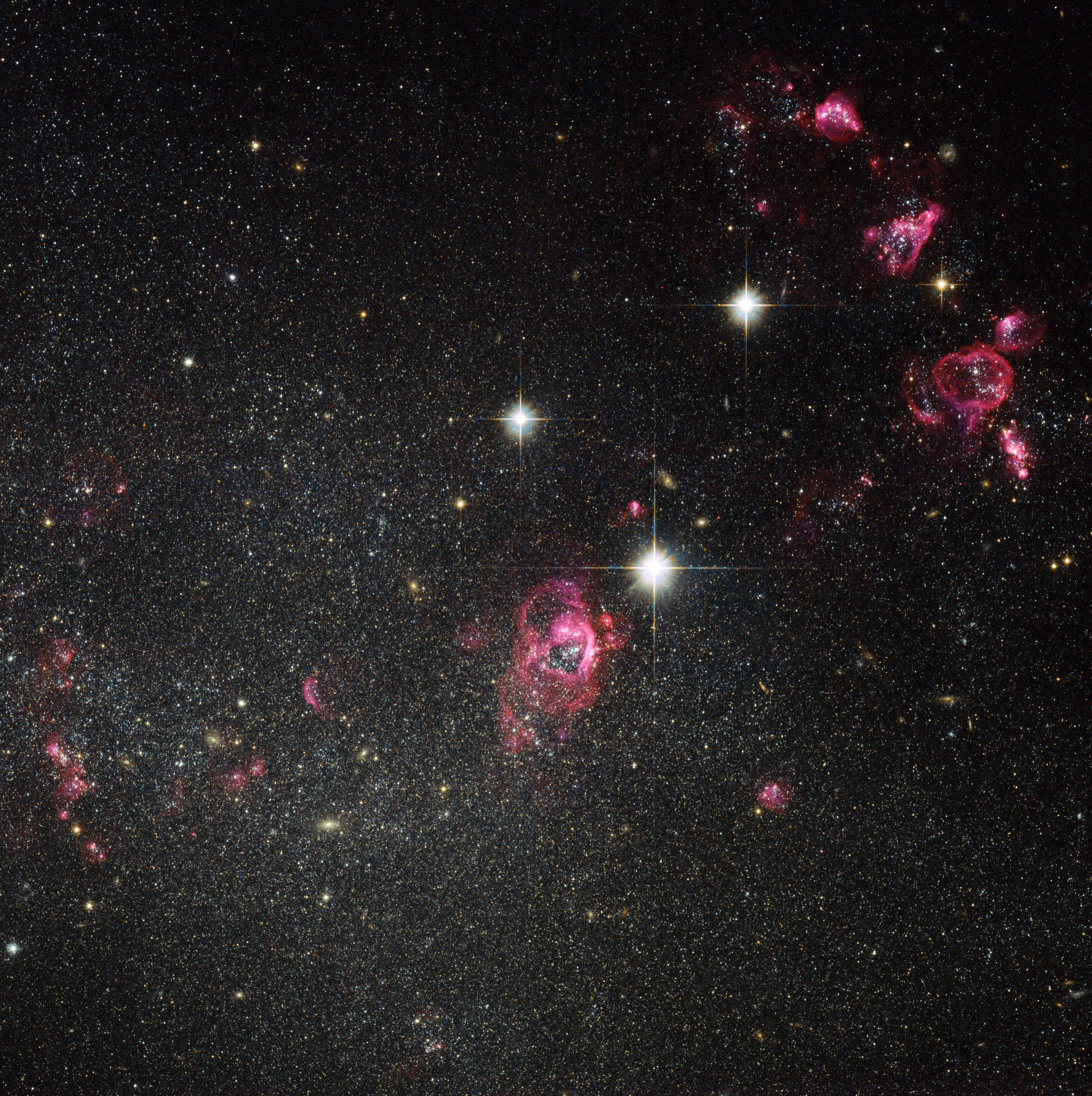 The NASA/ESA Hubble Space Telescope has captured this image of dwarf irregular galaxy Holmberg II. The galaxy is dominated by huge bubbles of glowing gas, which are sites of ongoing star formation. As high-mass stars form in dense regions of gas and dust they expel strong stellar winds that blow away the surrounding material. The cavities are also blown clear of gas by the shock waves produced in supernovae, the violent explosions that mark the end of the lives of massive stars.